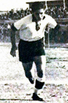 Lebanese forward Camille Cordahi against Mandatory Palestine.